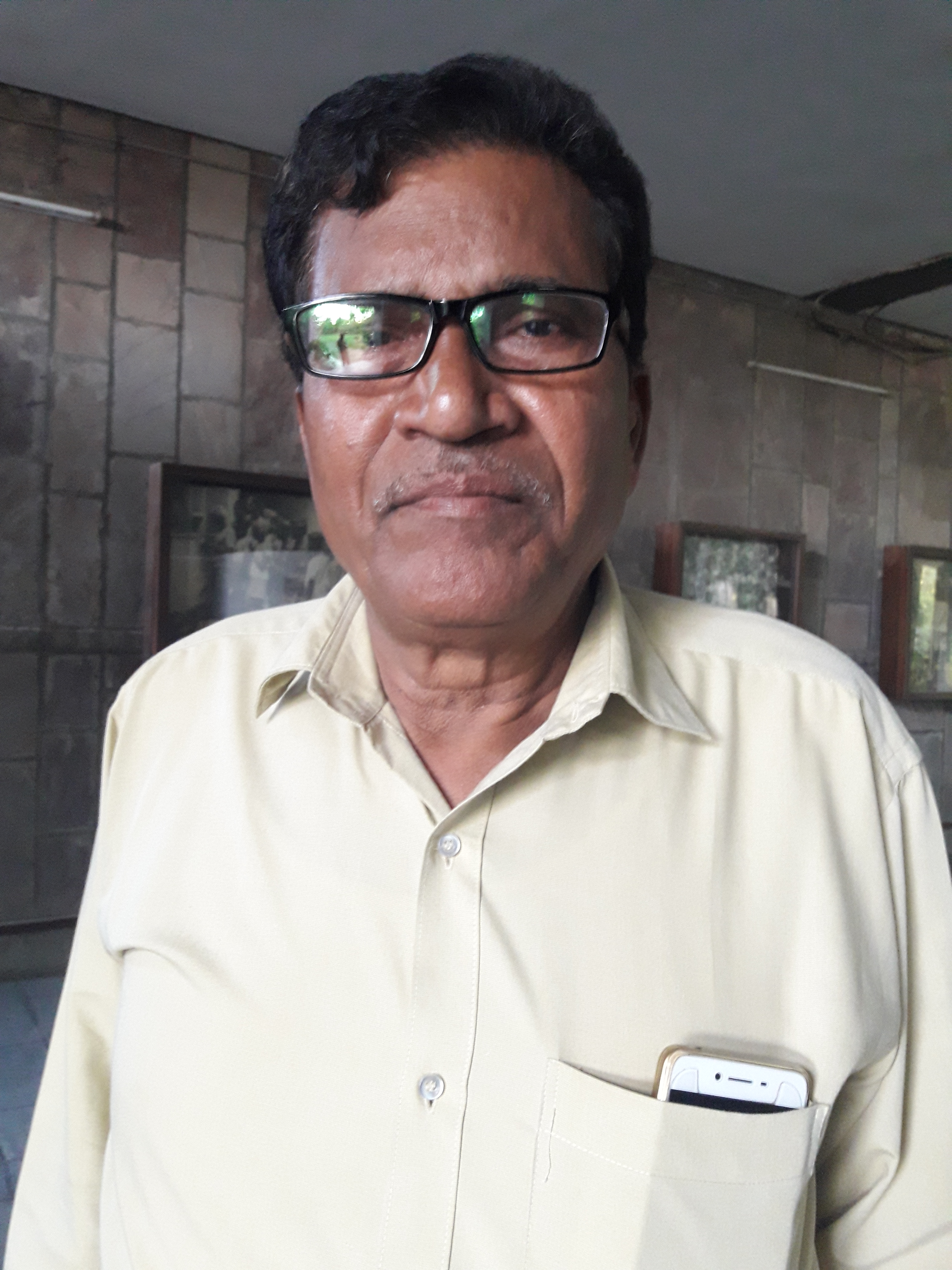 Gujarati author Mohan Parmar at ATMA House, Ashram Road, Ahmedabad on 4 March 2017